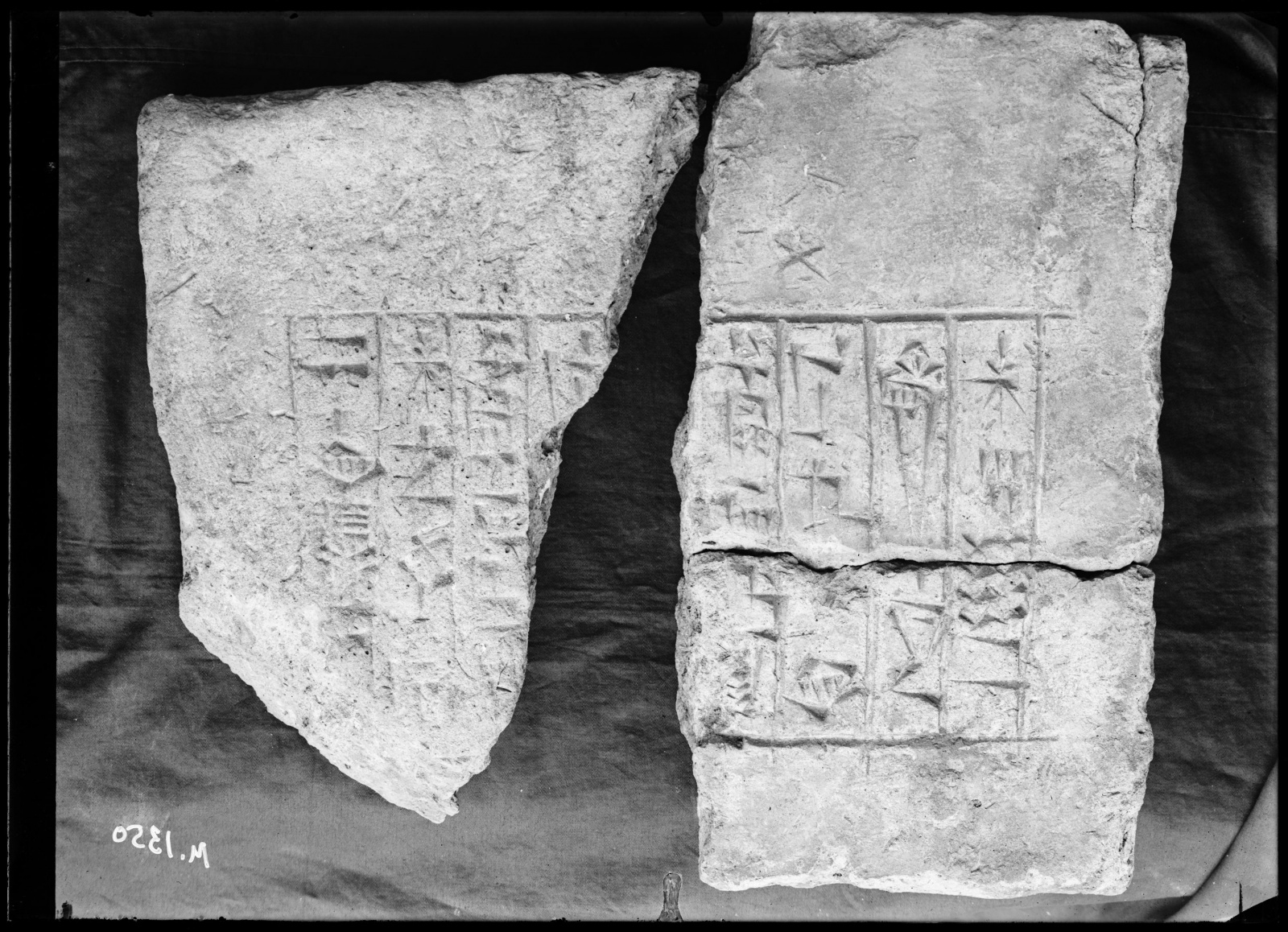 Brick with inscription of Ili-Ishar, March 1935